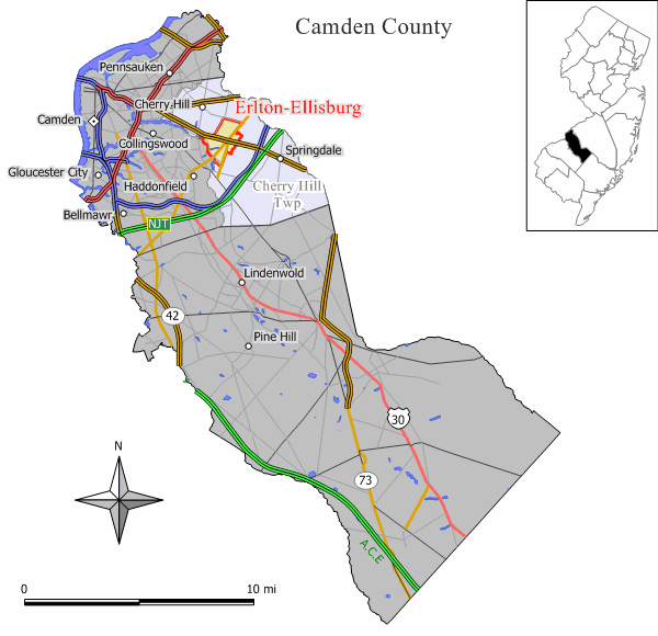 Source: Jim Irwin Original work by Jim Irwin, December 2005.